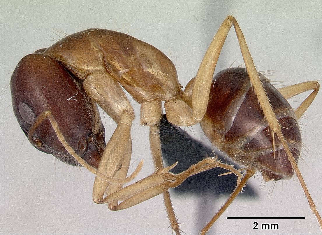 Profile view of ant Camponotus novaehollandiae specimen casent0172156.